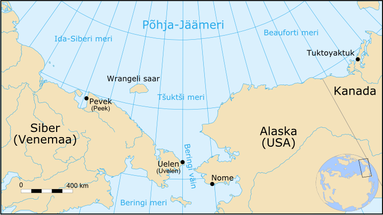 Map showing the location of the Chukchi Sea, part of the Arctic Ocean.